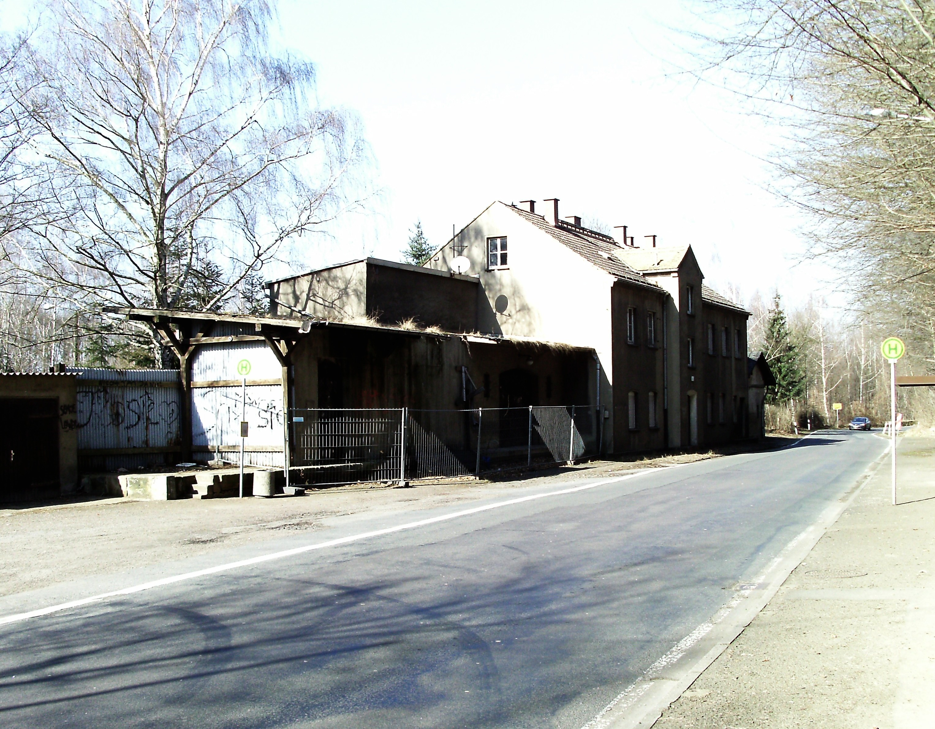 Former Golzern station at the Mulde valley railway line (Grimma, Leipzig district, Saxony)